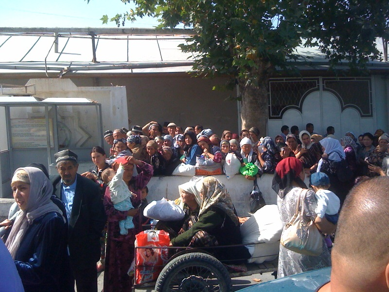 Our US passports cut us to the front of the line. Make of this what you will.